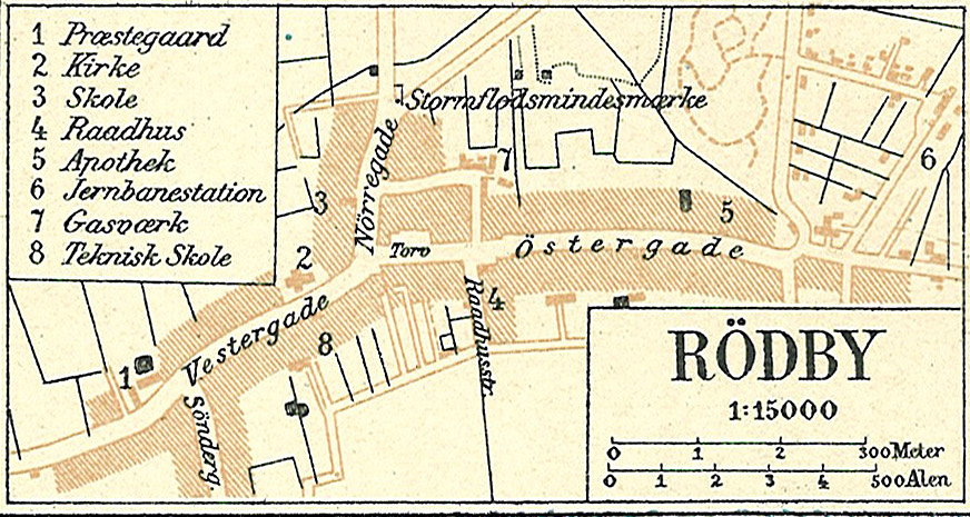 Map of Rødby on Lolland in Denmark